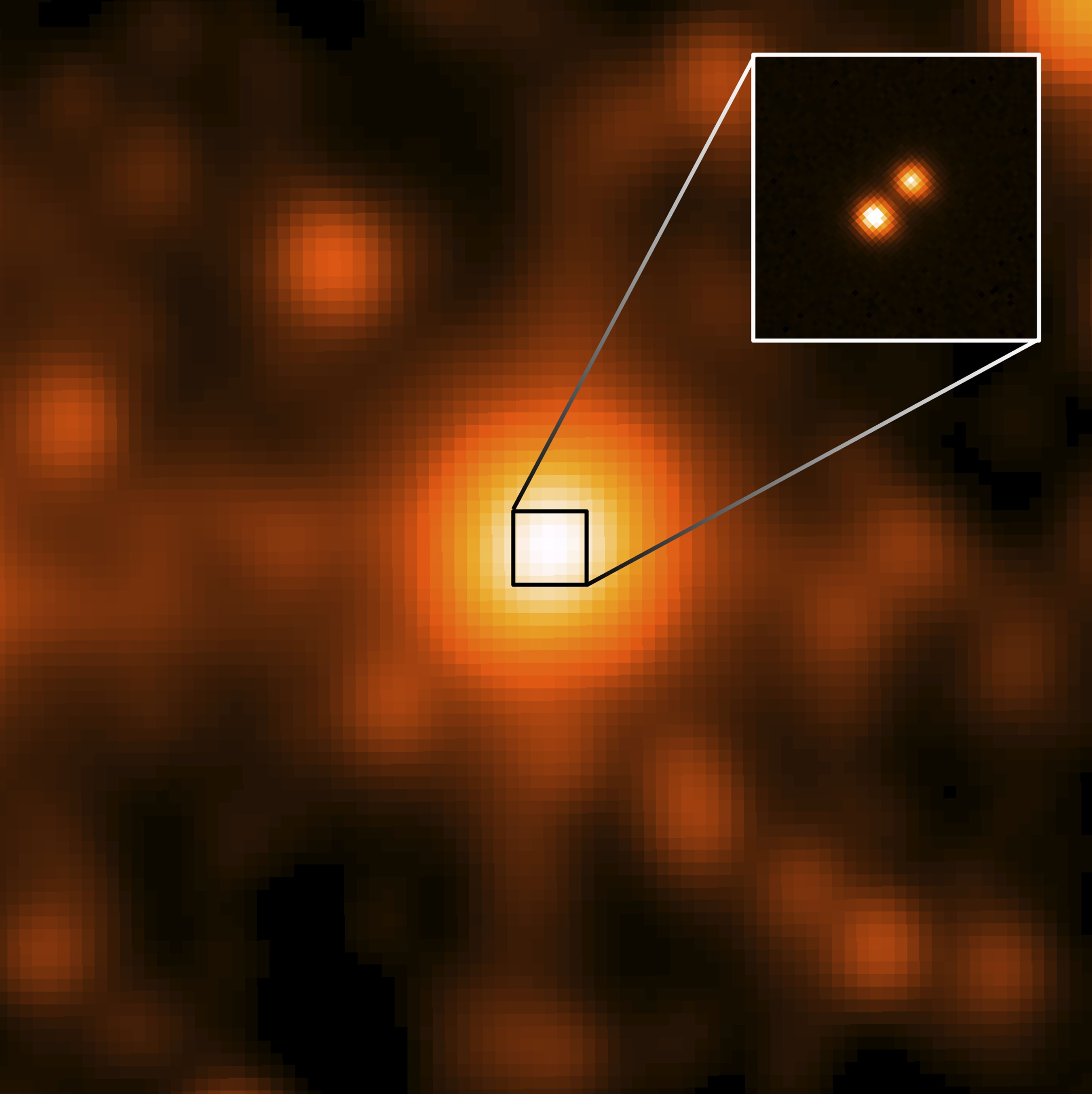 WISE J104915.57-531906 is at the center of the larger image, which was taken by the NASA's Wide-field Infrared Survey Explorer (WISE). This is the closest star system discovered since 1916, and the third closest to our sun. It is 6.5 light-years away. At first, the light appeared to be from a single object, but a sharper image from the Gemini Observatory in Chile revealed that it was from a pair of cool star-like bodies called brown dwarfs.